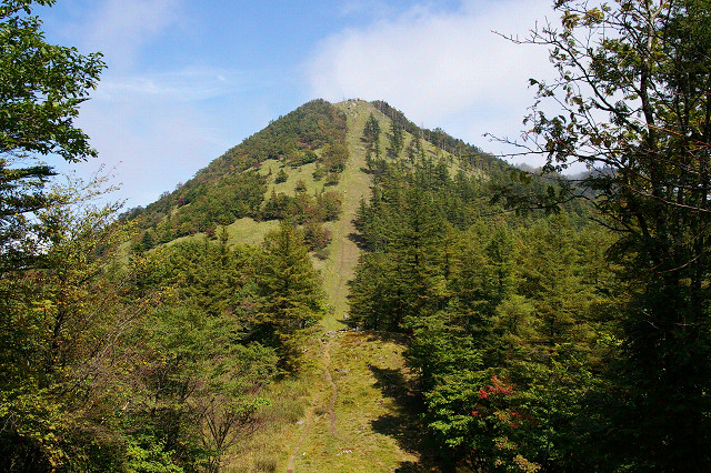 The SW side of Mount Kasatori.